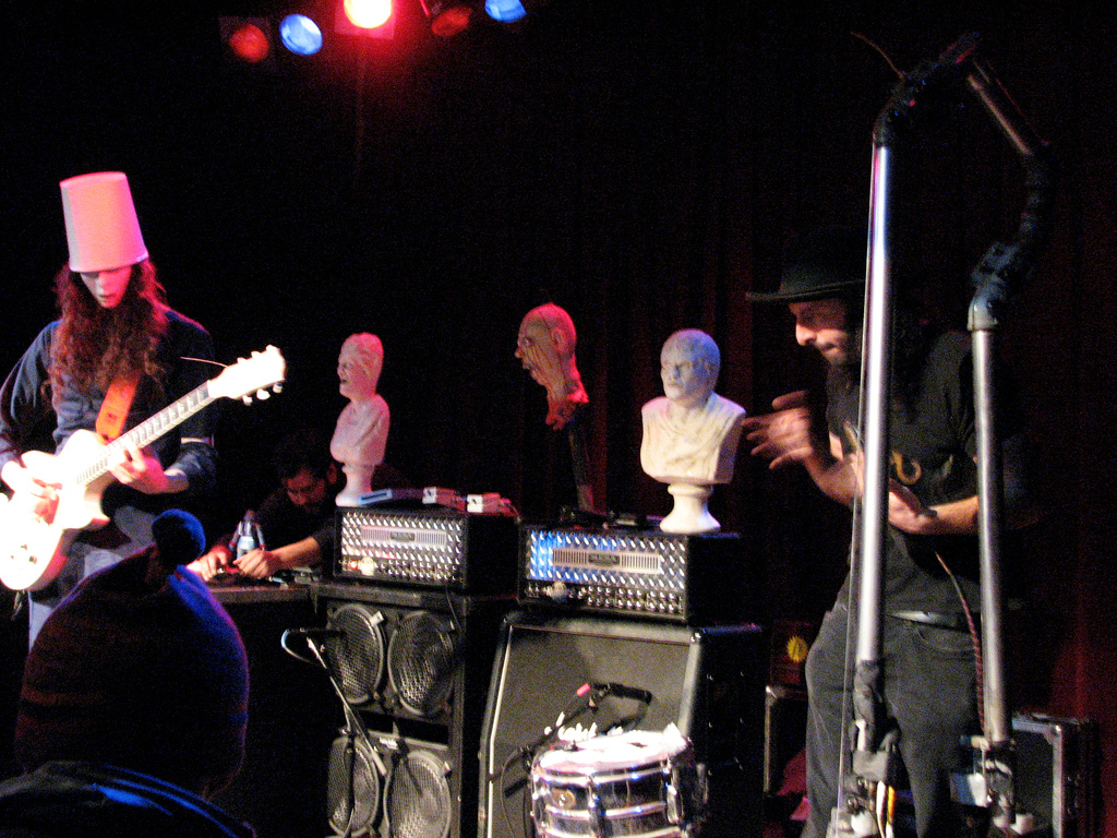 Buckethead and That 1 Guy during a concert at Neumos in Seattle.